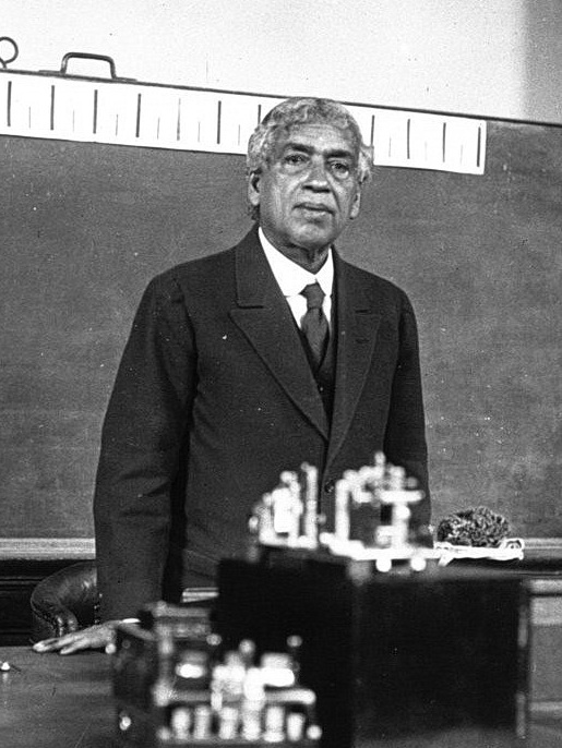 Bengali scientist Jagadish Chandra Bose (1858-1937) lecturing on the "nervous system" of plants at the Sorbonne in Paris in 1926.